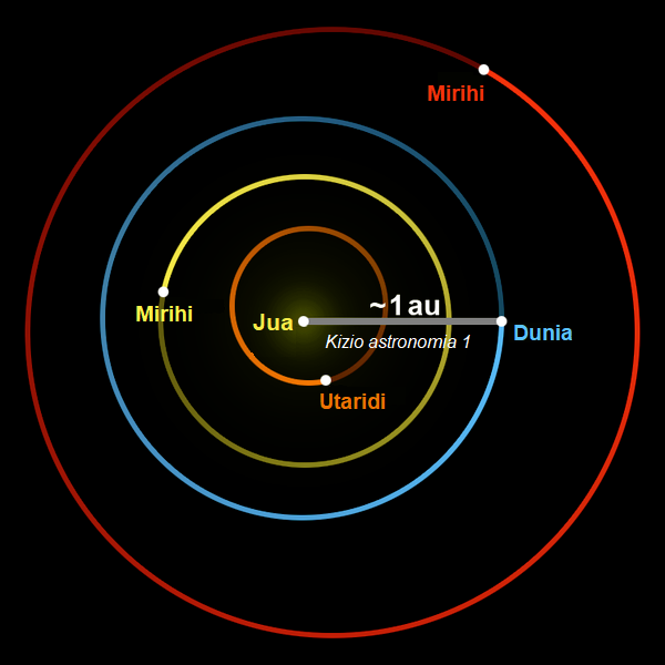 an astronomical unit Kiswahili: Kizio cha astronomia ni umbali wa wastani baina ya Jua na Dunia